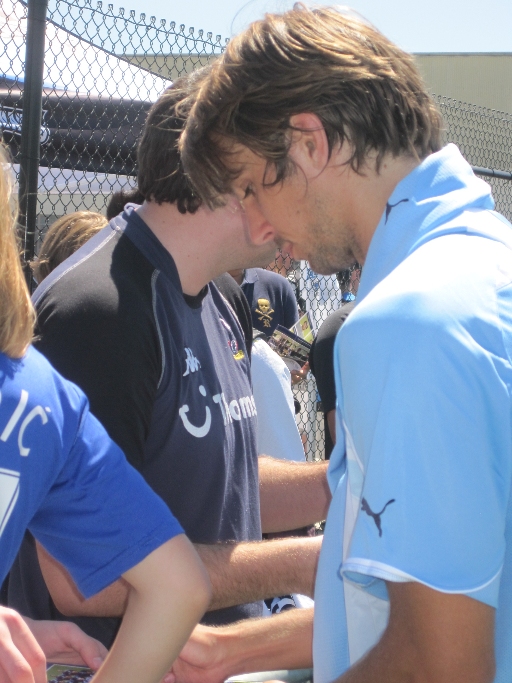 Niko Kranjcar signing autographs for fans in San Jose, California.